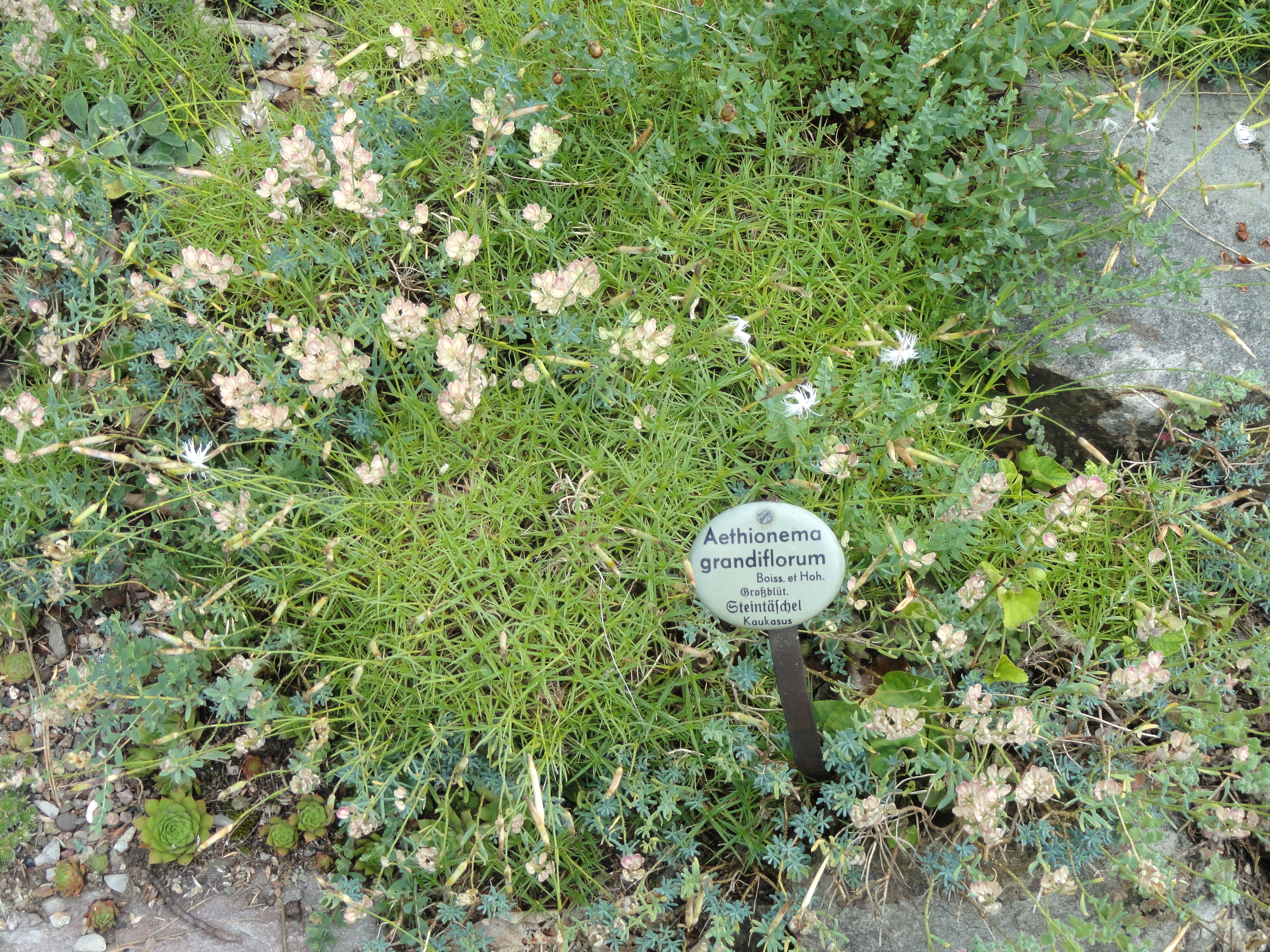 Botanical specimen in the Botanischer Garten, Frankfurt am Main, located at Siesmayerstraße 72, Frankfurt am Main, Germany.